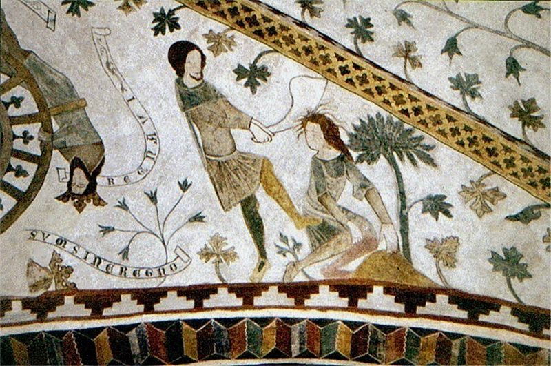 Birkerød Kirke (church)